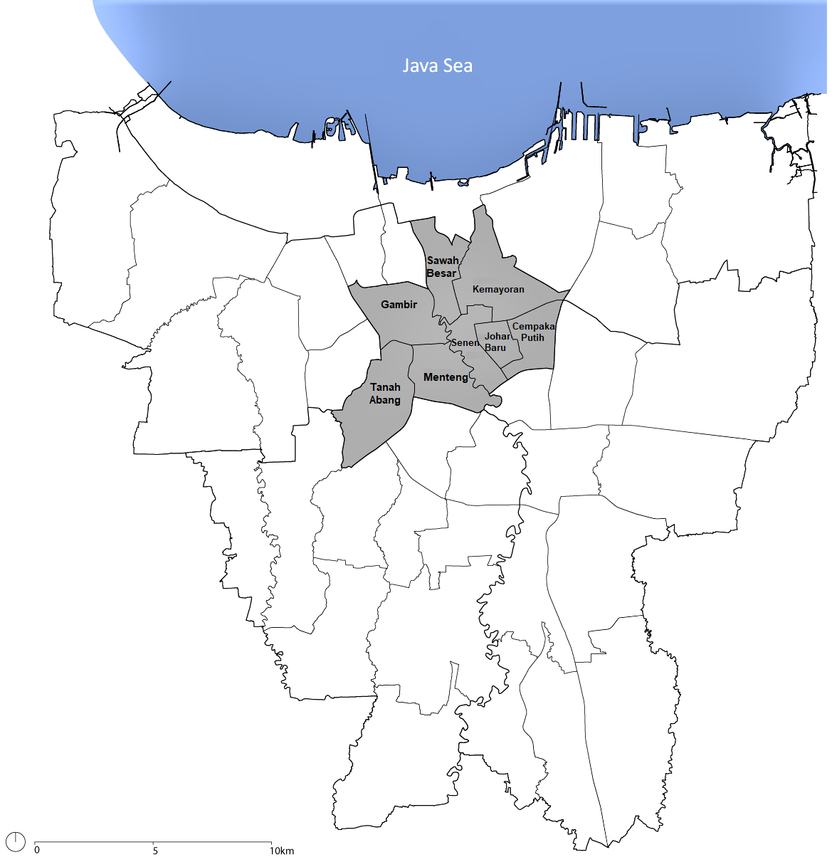 City (Kota Administrasi) of Central Jakarta (Jakarta Pusat) divided into several subdistricts (Kecamatan)